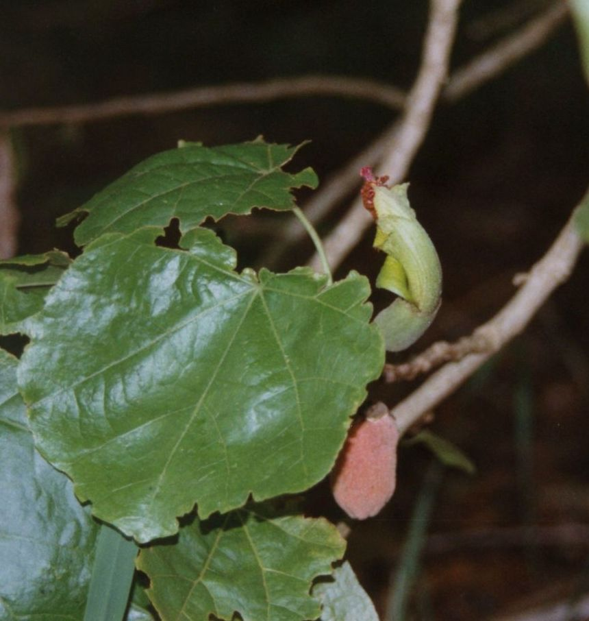 Flower of Hibiscadelphus x puakuahiwi, a hybrid between H. giffardianus and H. hualalaiensis. Kīpuka Kī, Hawaii Volcanoes National Park. Photo by Karl Magnacca, January 1999.